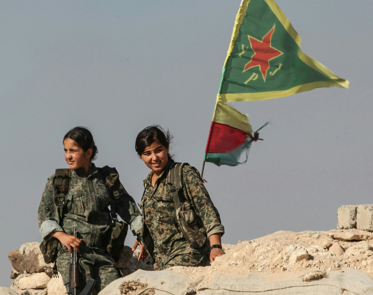 YPJ fighters with flag in the background.